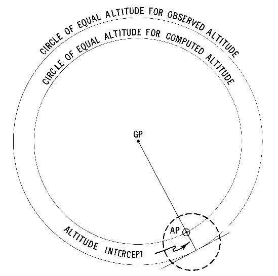 figure 2004 of APN2002